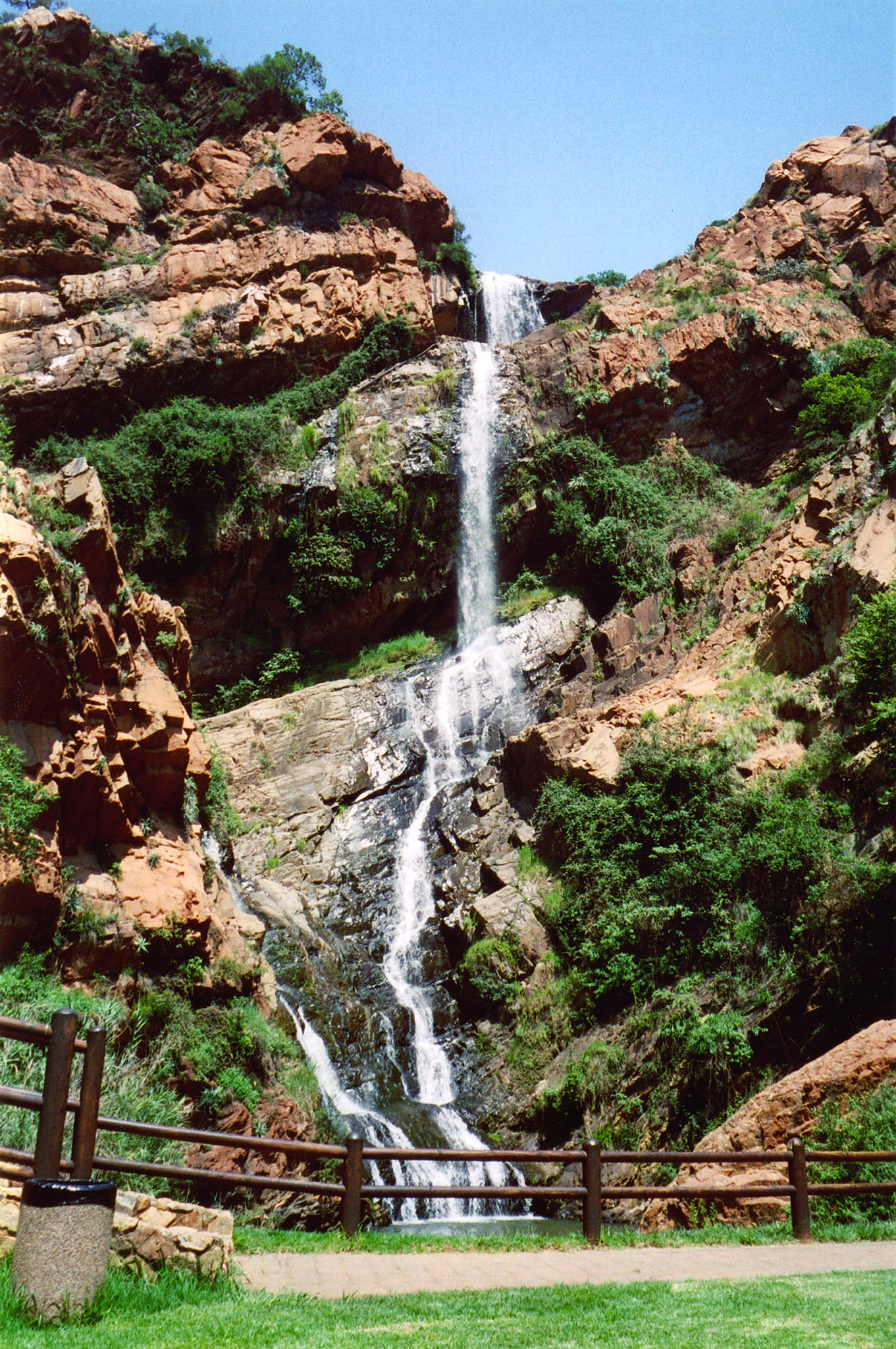 Witpoortjie Falls in Muldersdrif se Loop, in Walter Sisulu Botanical Gardens, west of Johannesburg, South Africa